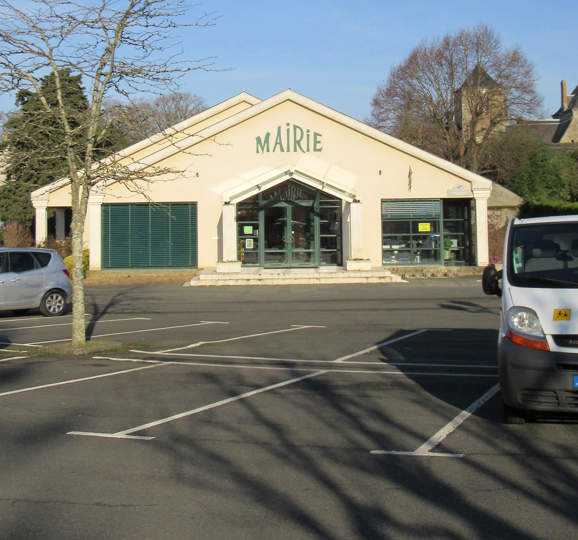 Municipality palace of Solesmes, Sarthe, France